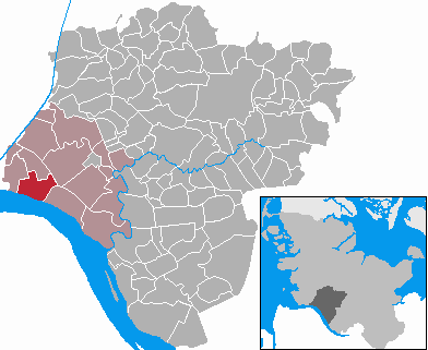 This map shows the area of the municipality Sankt Margarethen in the Kreis (district) Steinburg, Schleswig-Holstein, Germany.